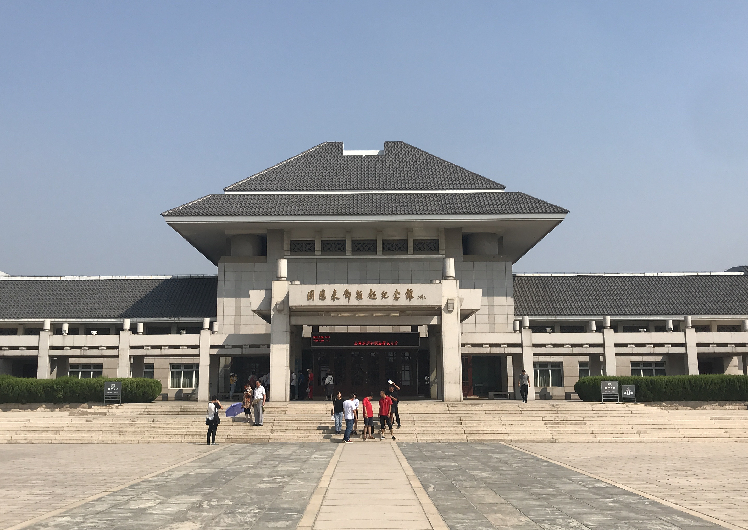 Zhou Deng Memorial Hall Entrance 2019